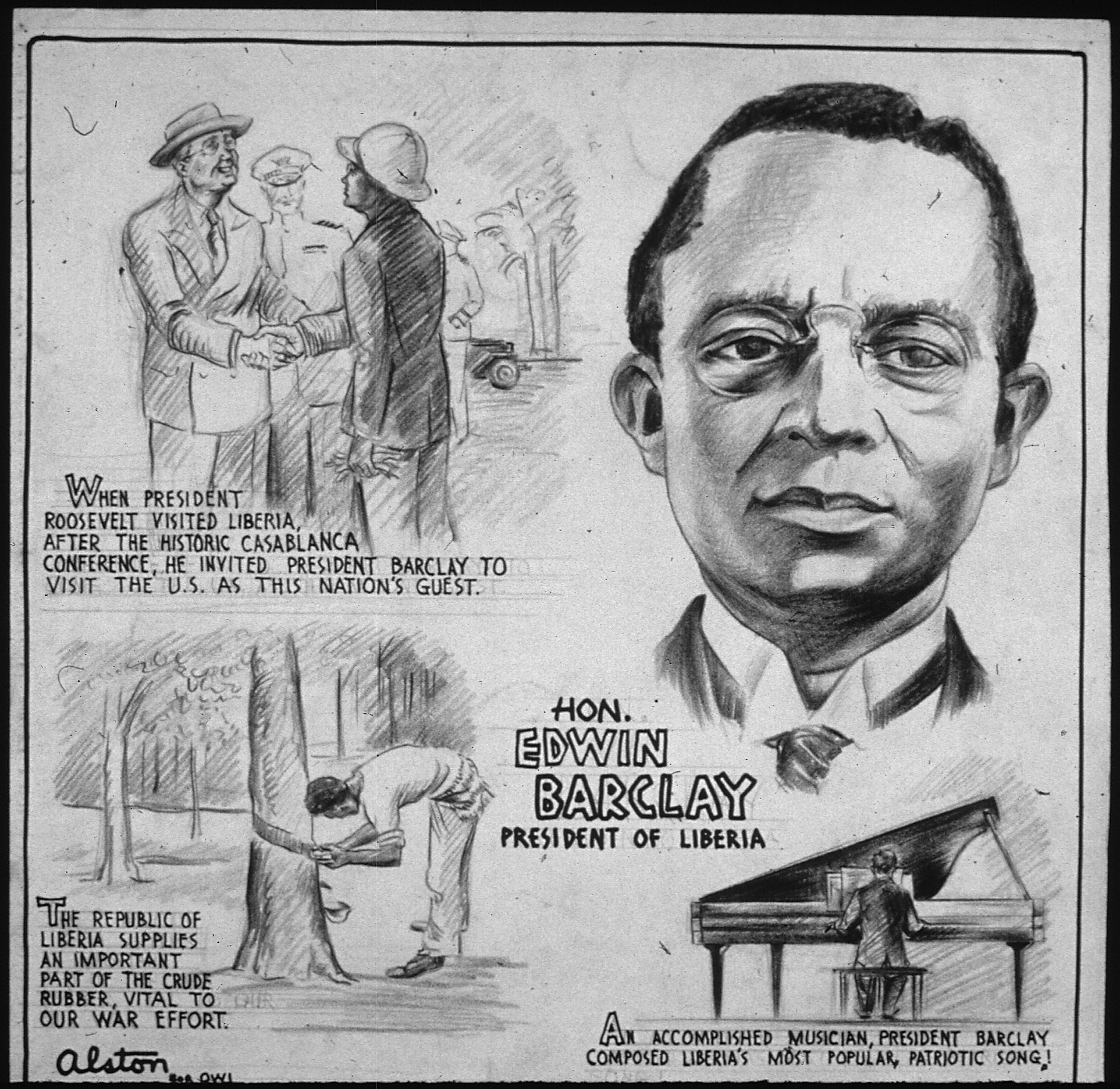 Scope and content: Honorable Edwin Barclay - with biographical paragraphs.